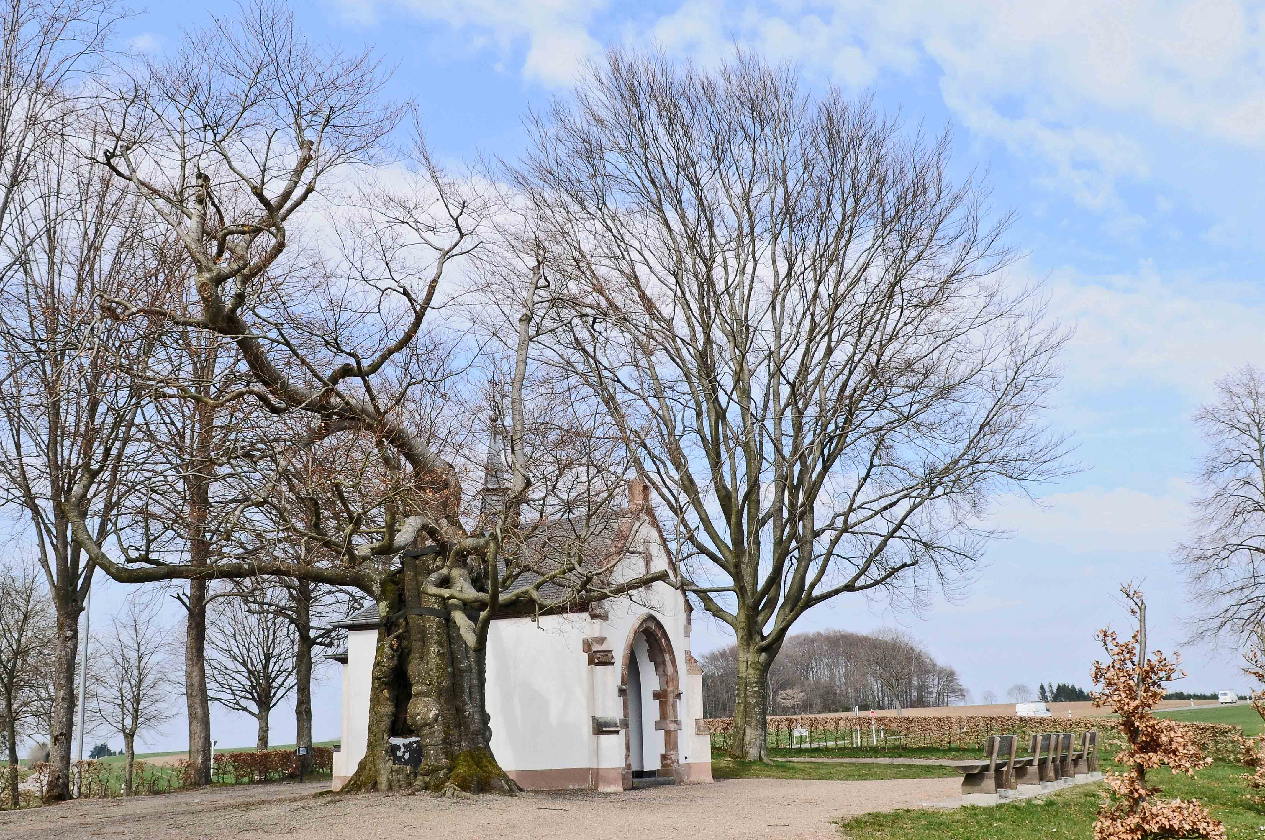 The so-called Wolframsbich is a Common Beech (Fagus sylvatica) located at Wolwelange, commune of Rambrouch, Luxembourg.